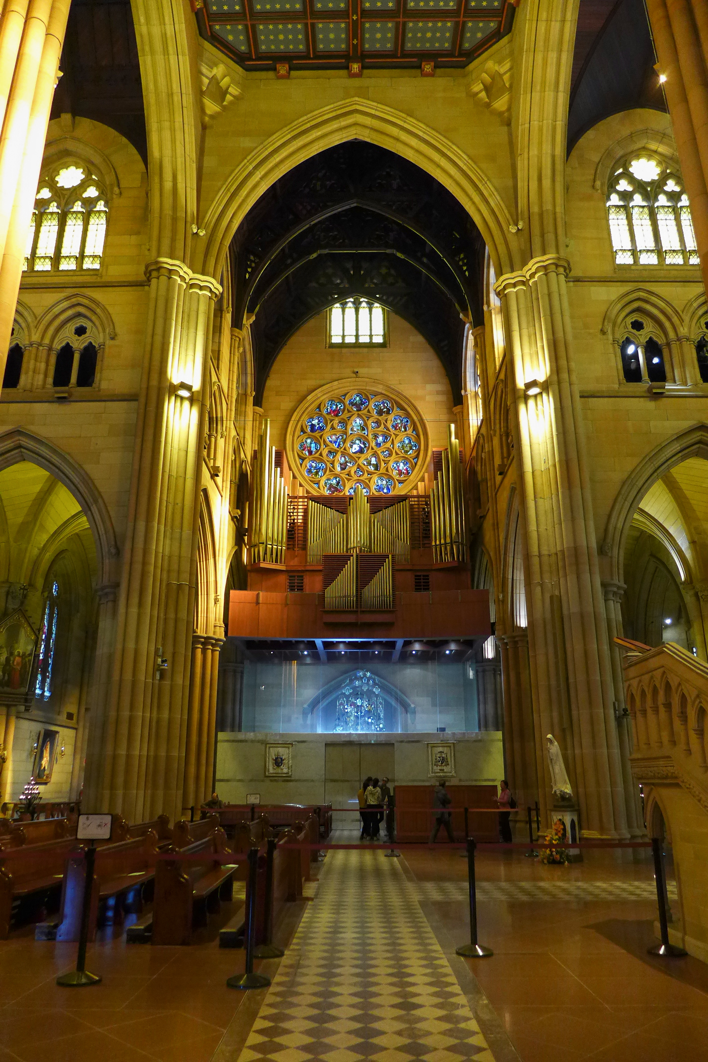 St Mary's Cathedral Sydney